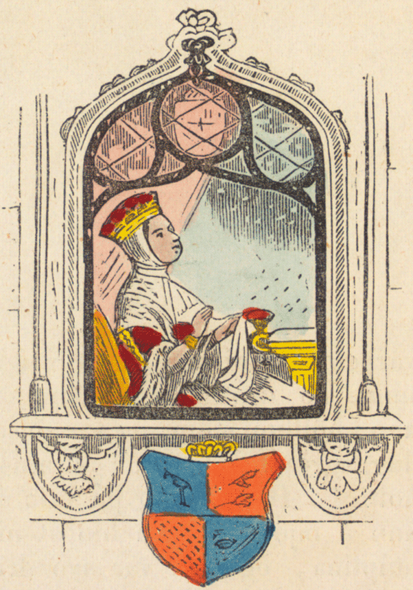 An illustration from page 4 of Mjallhvít (Snow White) an 1852 icelandic translation of the Grimm-version fairytale.